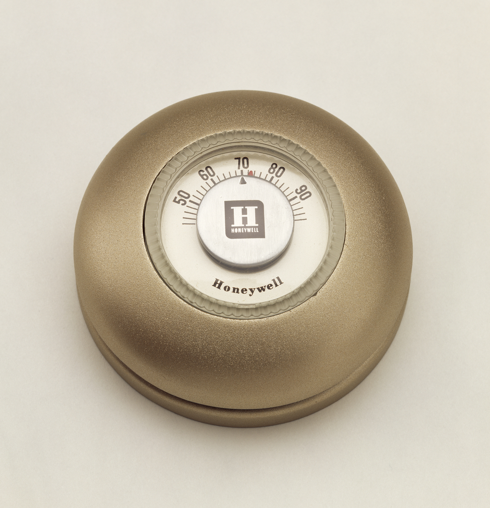 Image of T-86 Round Thermostat, by Honeywell International